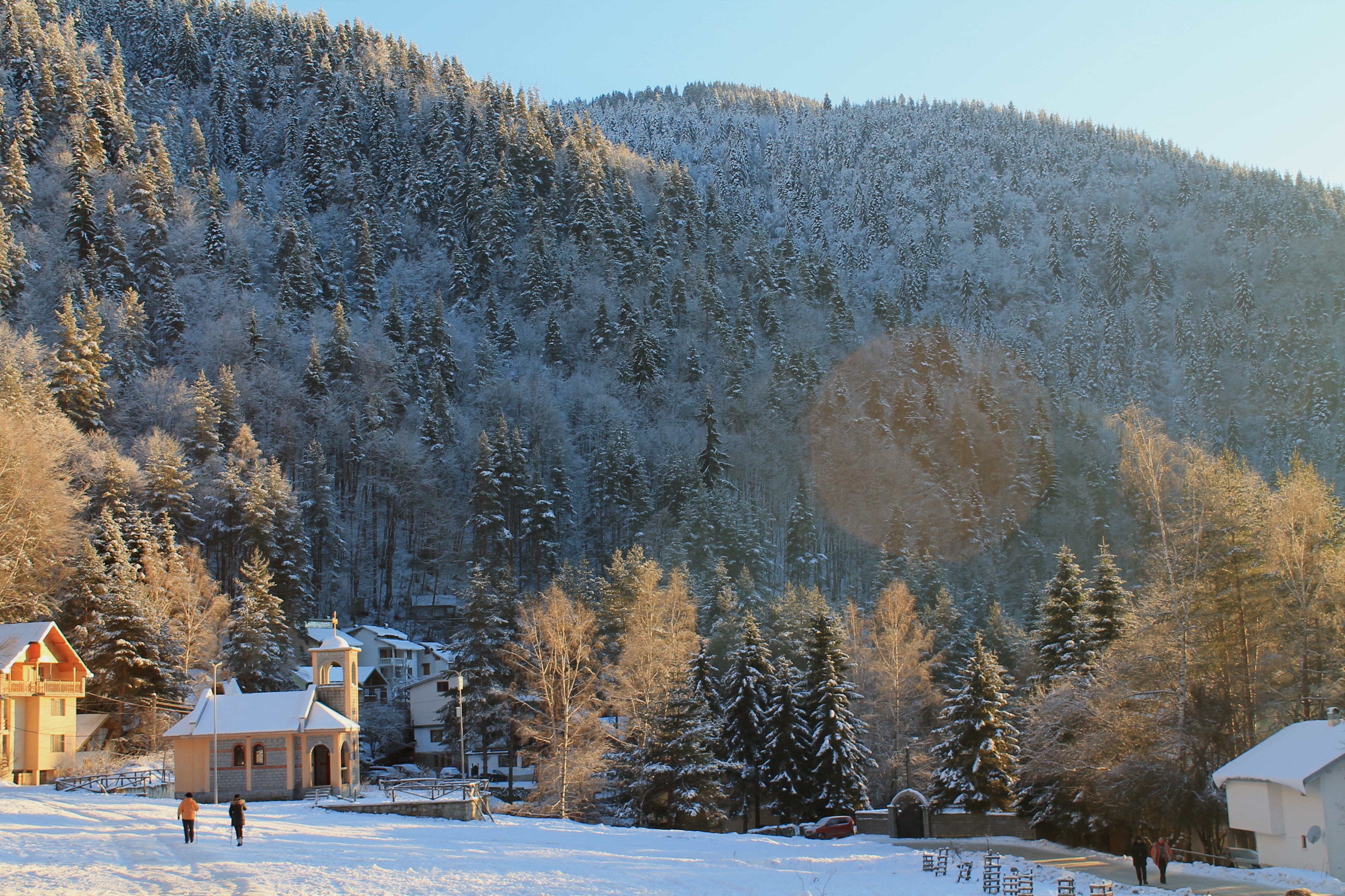 Popina laka, Pirin, Bulgaria